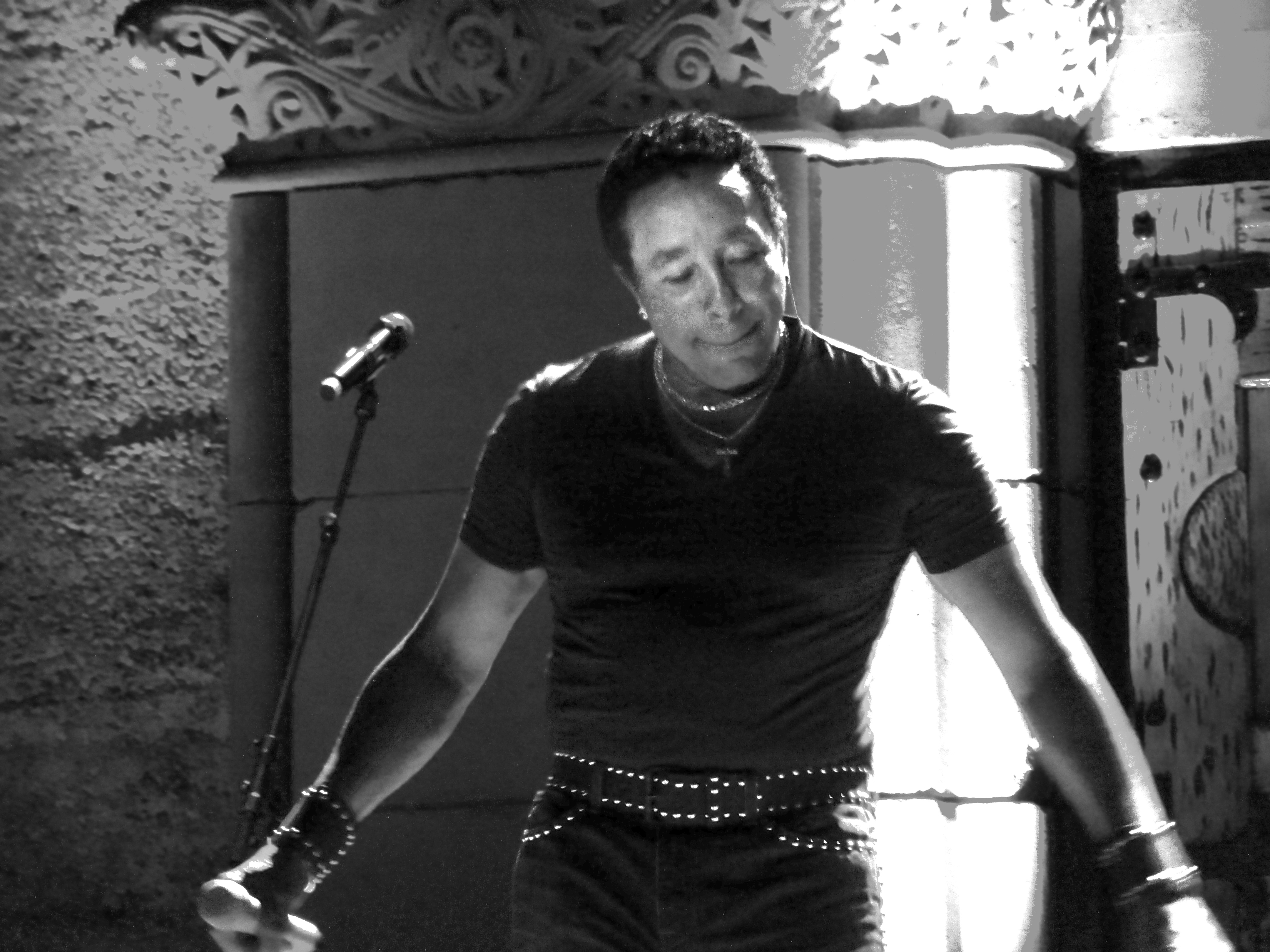 Smokey Robinson performing on June 28, 2013, at the Mountain Winery in Saratoga, California